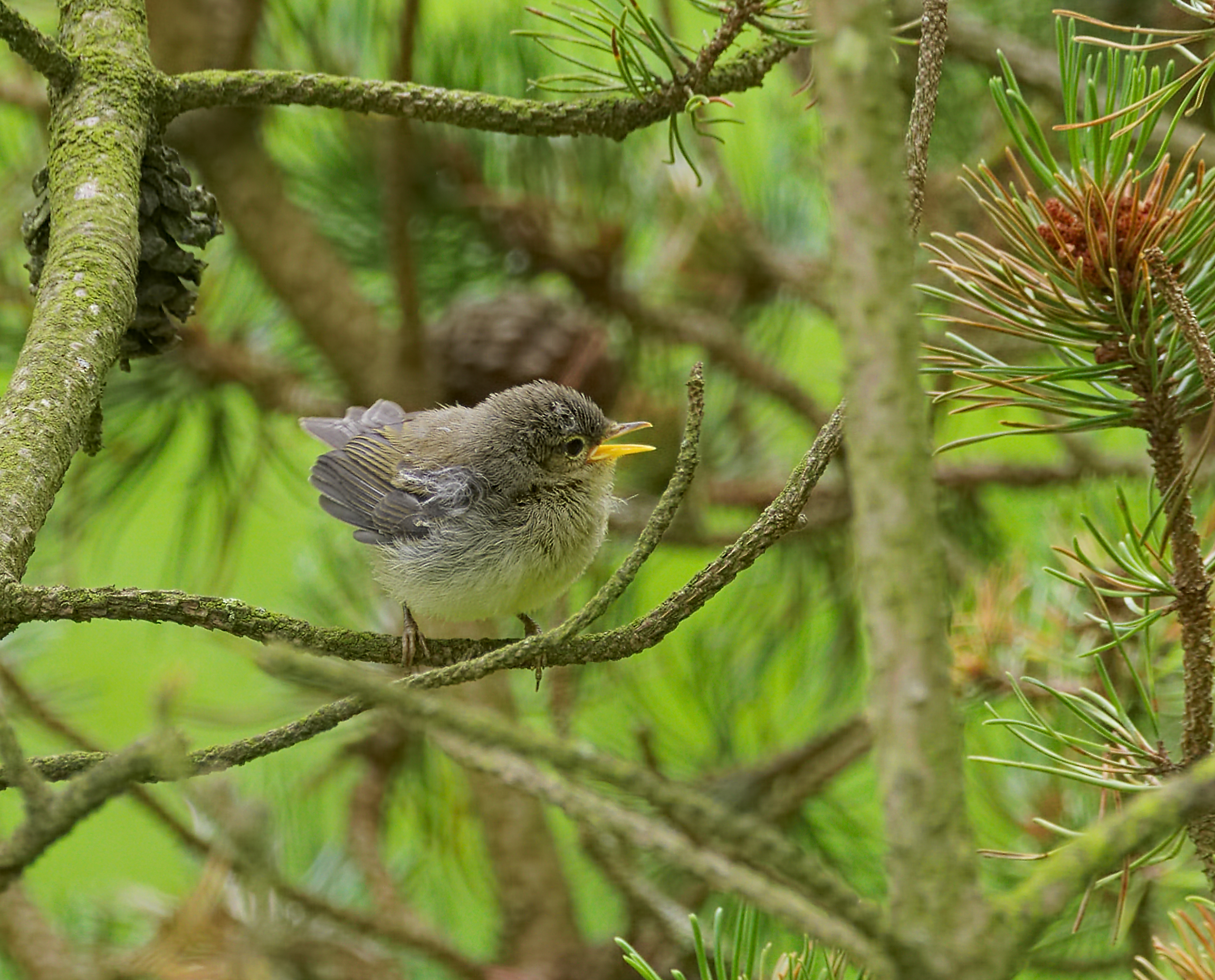 Common chiffchaff - Phylloscopus collybita, young bird. Taken by the Westensee in Felde, Schleswig-Holstein, Germany.